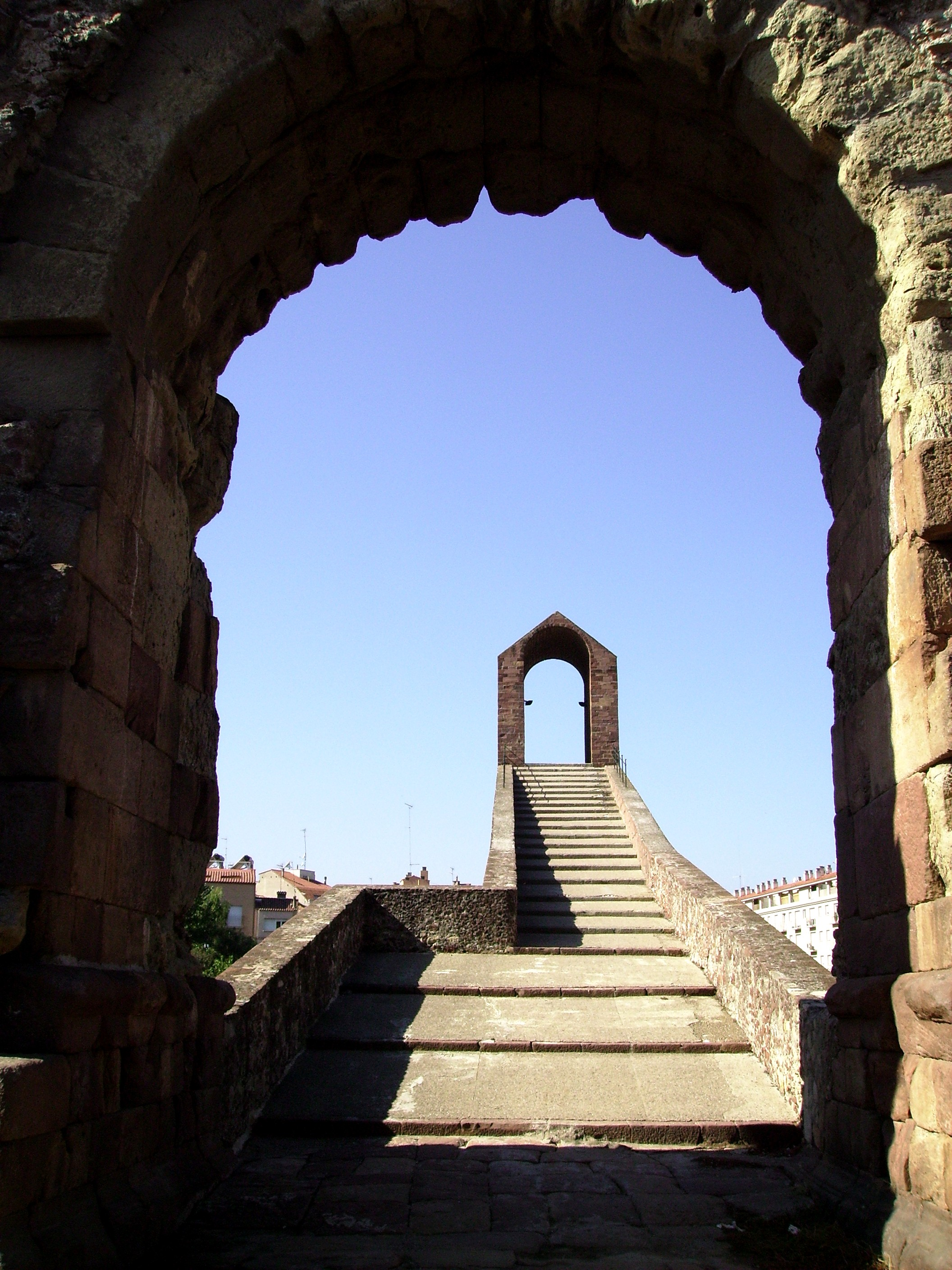 The Puente del Diablo is a bridge over the Llobregat in Martorell, Catalonia, Spain.